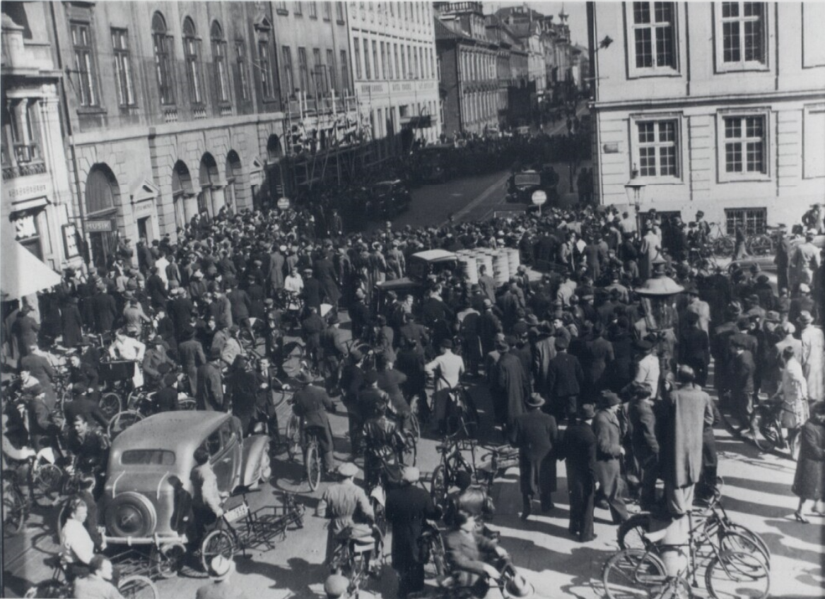 Tysk militær afhenter ansatte ved den britiske legation i Bredgade ved Sankt Annæ Plads, 9. April 1940